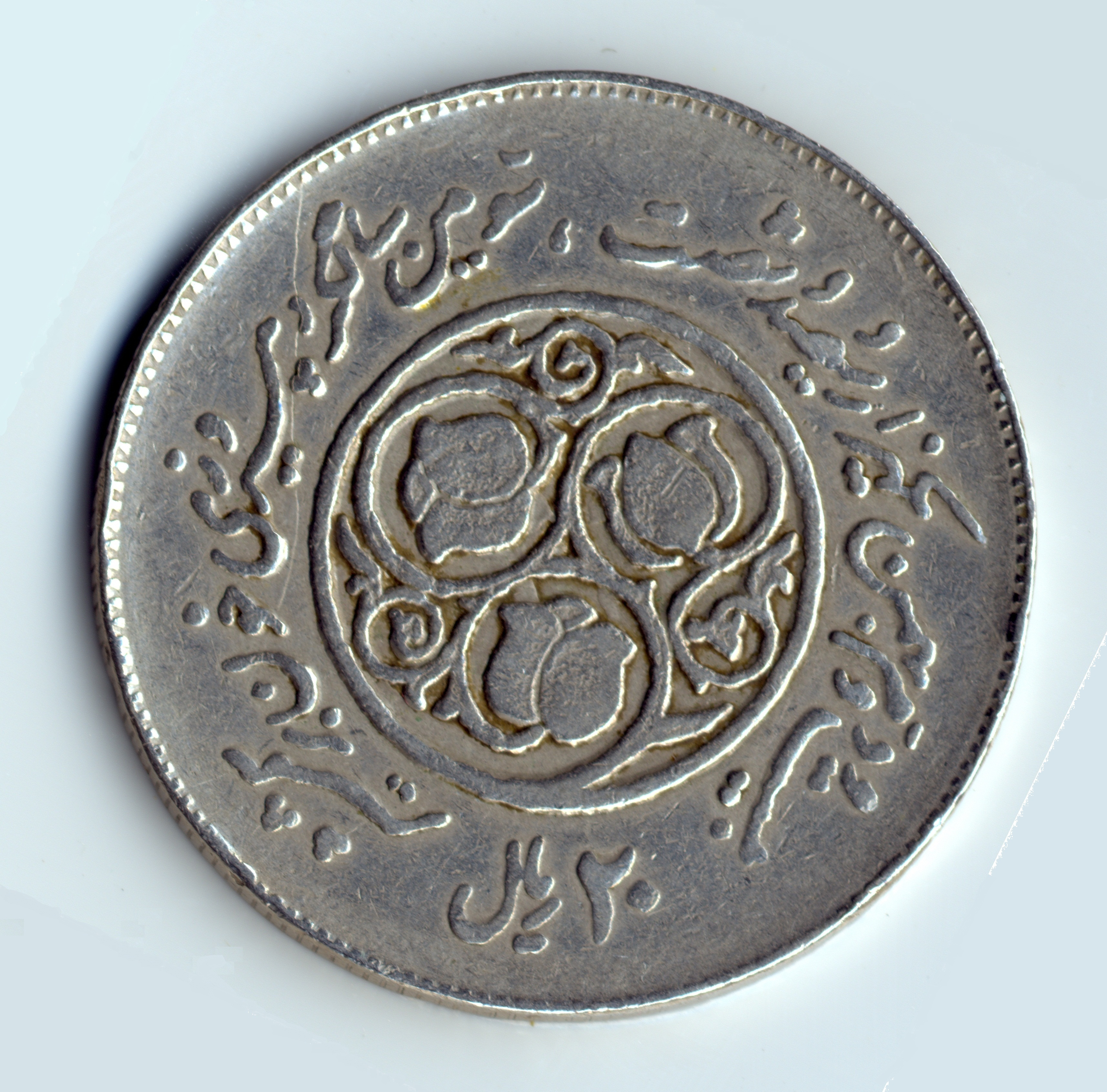 Reverse of Iranian 20 Rials coin - monument of 3rd anniversary of Islamic revolution - 1979